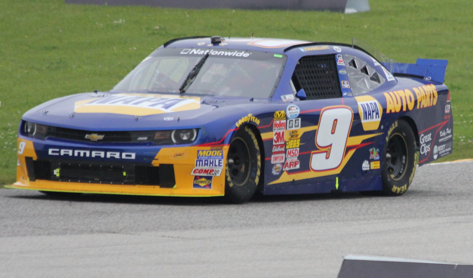 The drivers side of Chase Elliott Nationwide car during the 2014 Gardner Denver 200 at Road America. Taken racing up the hill between turns 5 and 6.